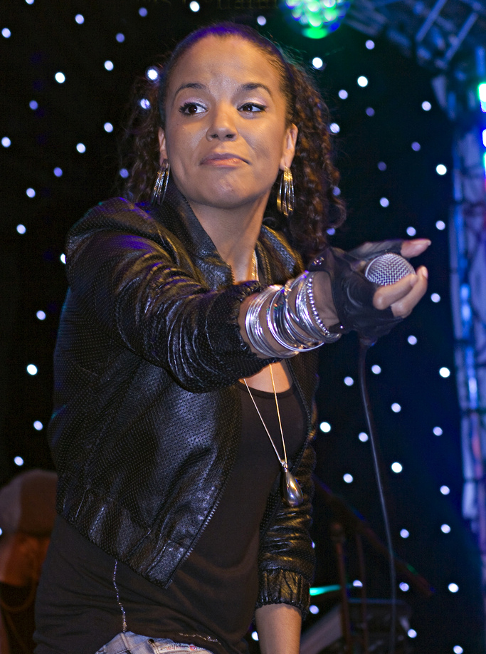 Flyover Show 2010